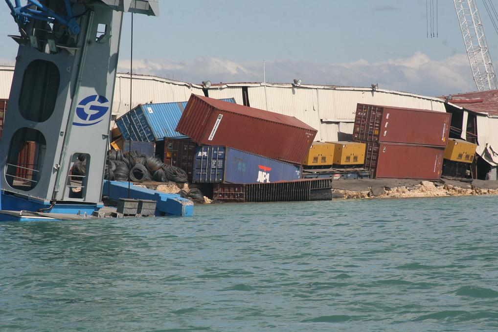 PORT-AU-PRINCE, Haiti – "Coast Guard crewmembers photographed tumbling shipping containers at Port-au-Prince Jan. 13, 2010. Coast Guard personnel arrived in Haiti to assess damage to the ports and waterways after an earthquake ravaged the island Jan. 12, 2010. U.S. Coast Guard photo." (Text From U.S. Coast Guard)